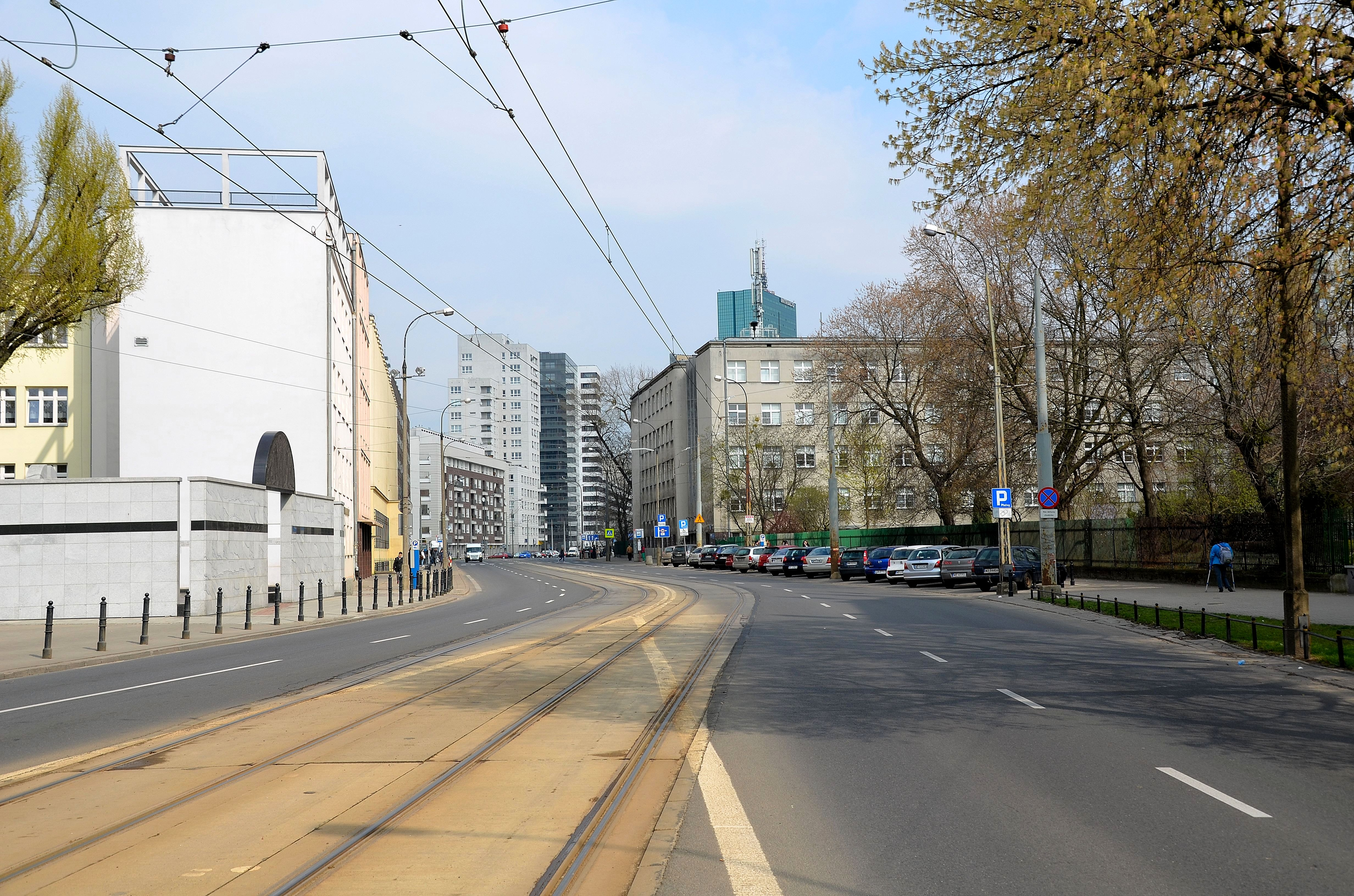 Stawki Street near Dzika Street, view to the east.